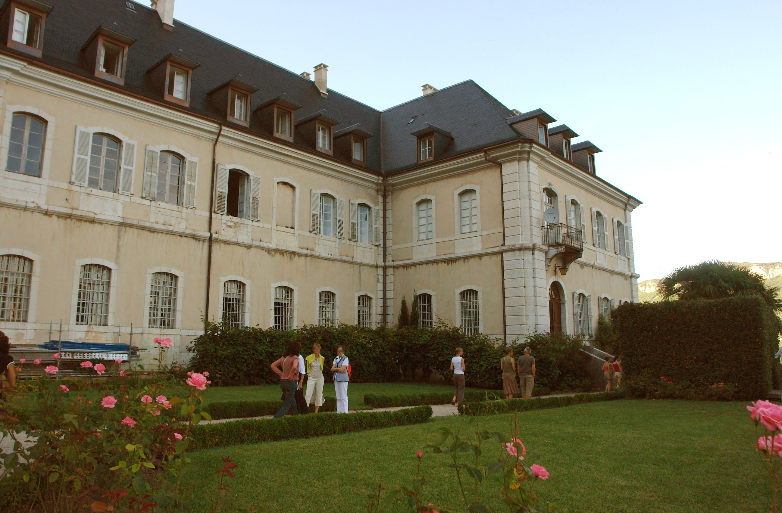 Hautecombe Abbey.